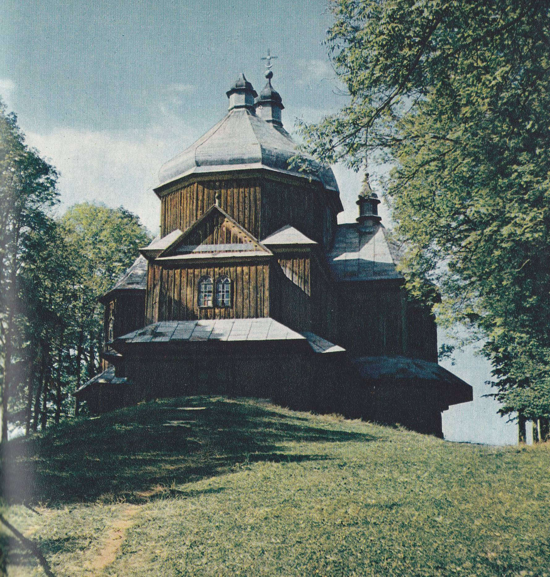 No longer existing orthodox church in Lutowiska